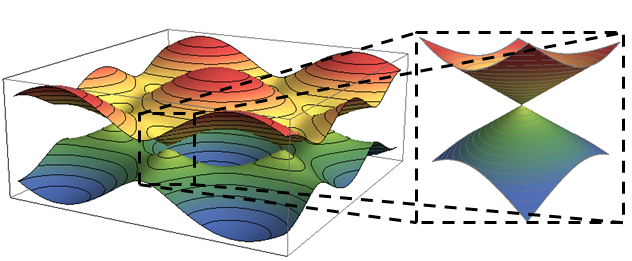 A figue showing Graphene's first brillouin zone and the linear dispresion dispersion near Dirac Points